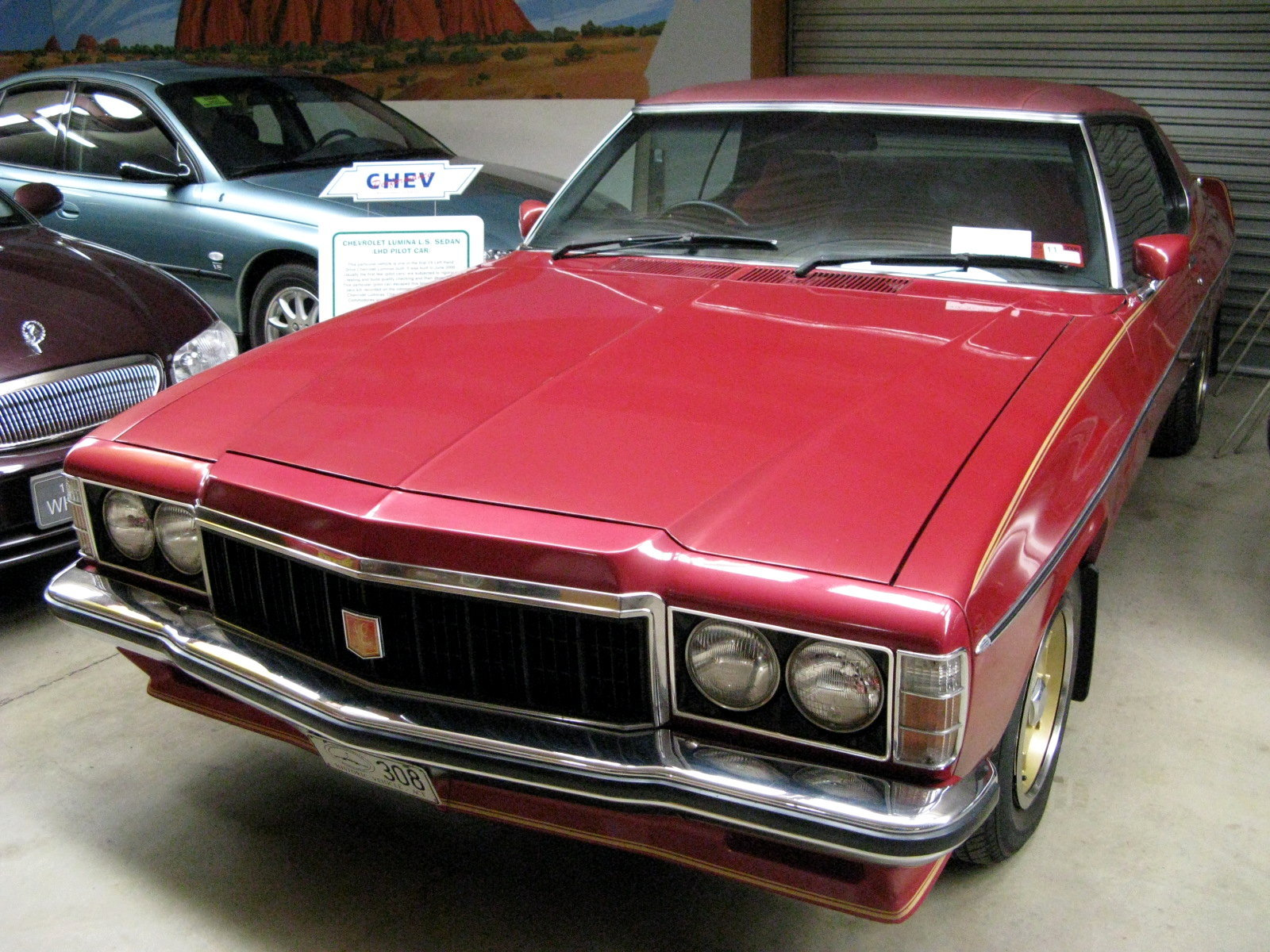 1976 Holden HX LE coupe, photographed at the National Holden Motor Museum, Echuca, Victoria, Australia.